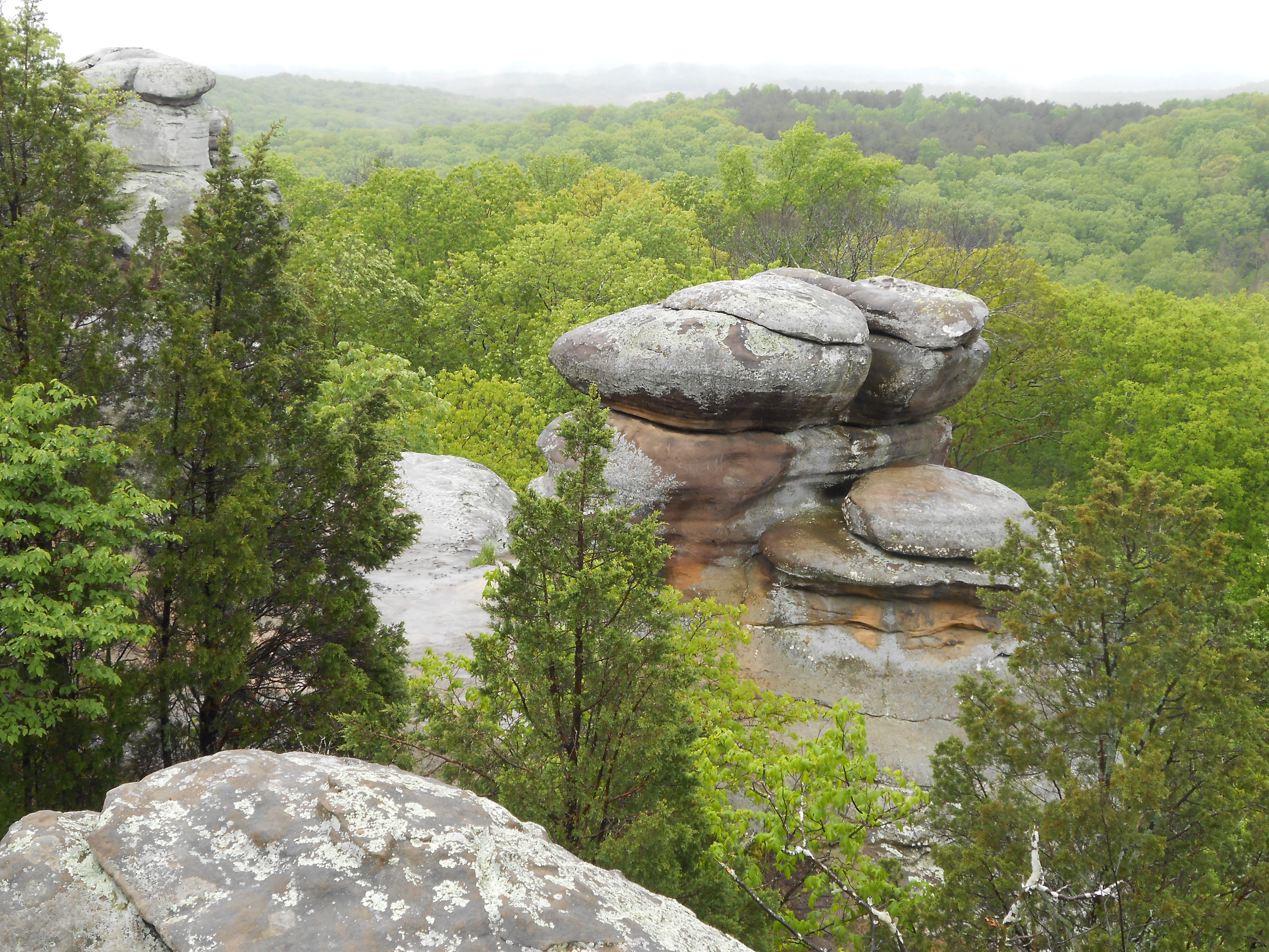 Scenic View